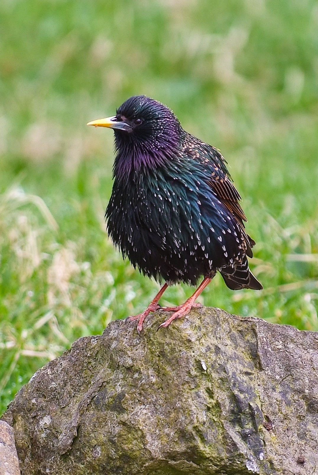 European Starling in Mykines, Faroe Islands - represents the local subspecies.